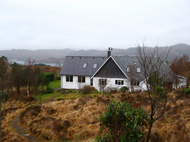 Marino Lodge, Roshven Marino Lodge is a modern Lodge surrounded by its own estate of 4500 acres. It is sited in an elevated position on Roshven Hill and has panoramic views over Loch Ailort and towards the islands of Rhum and Eigg.